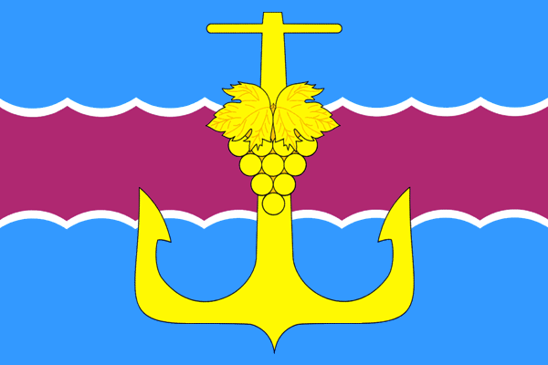 Flag of Temryuksky rayon, Krasnodar Territory, Russia